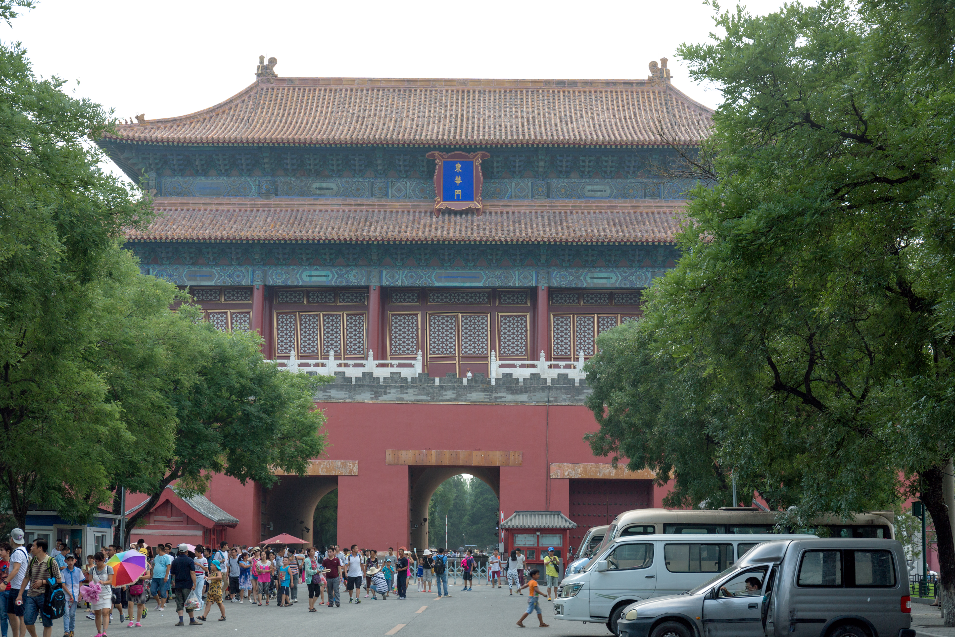 East Glorious Gate, Forbidden City